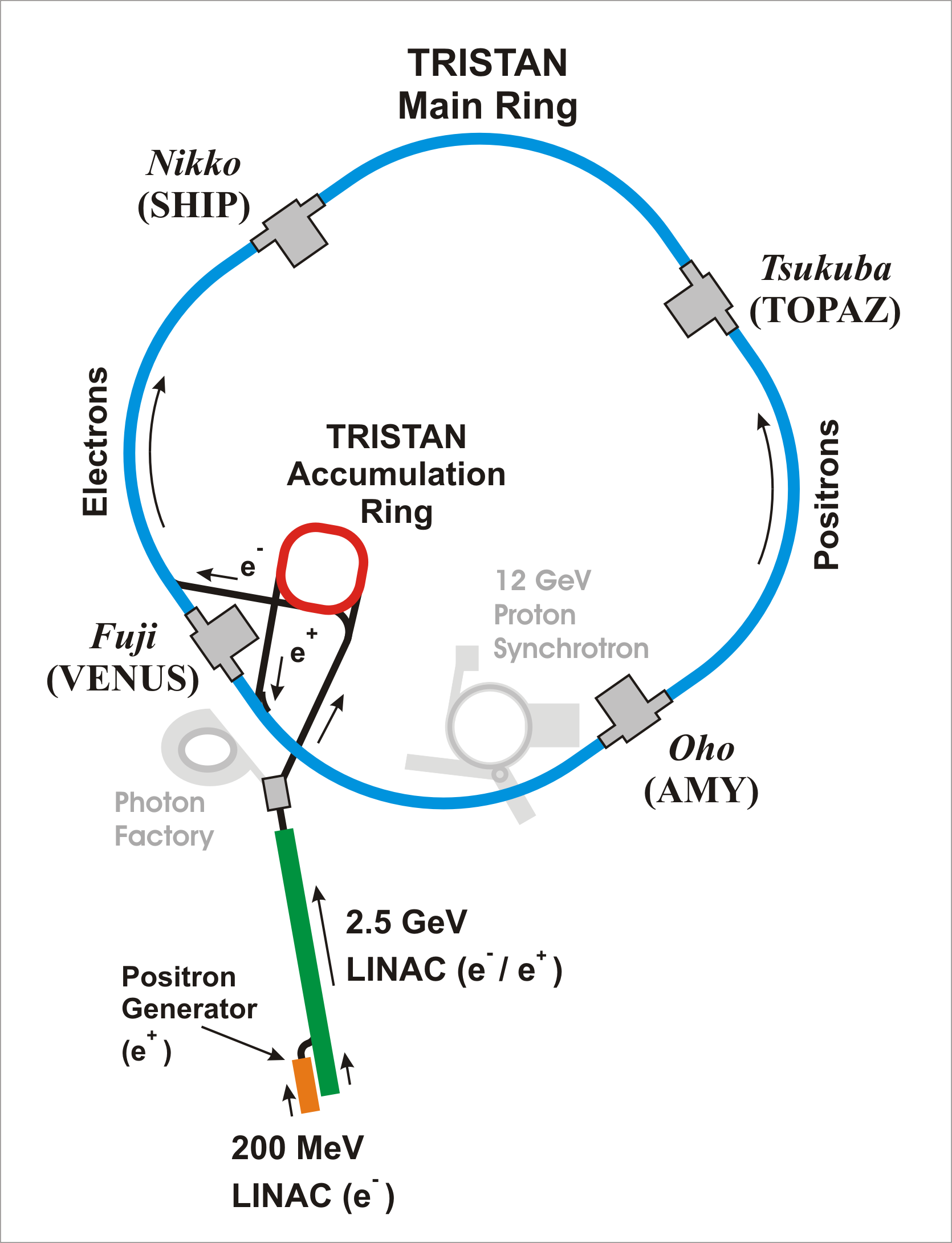 Schematic representation of the past accelerator complex TRISTAN at KEK (Japan)